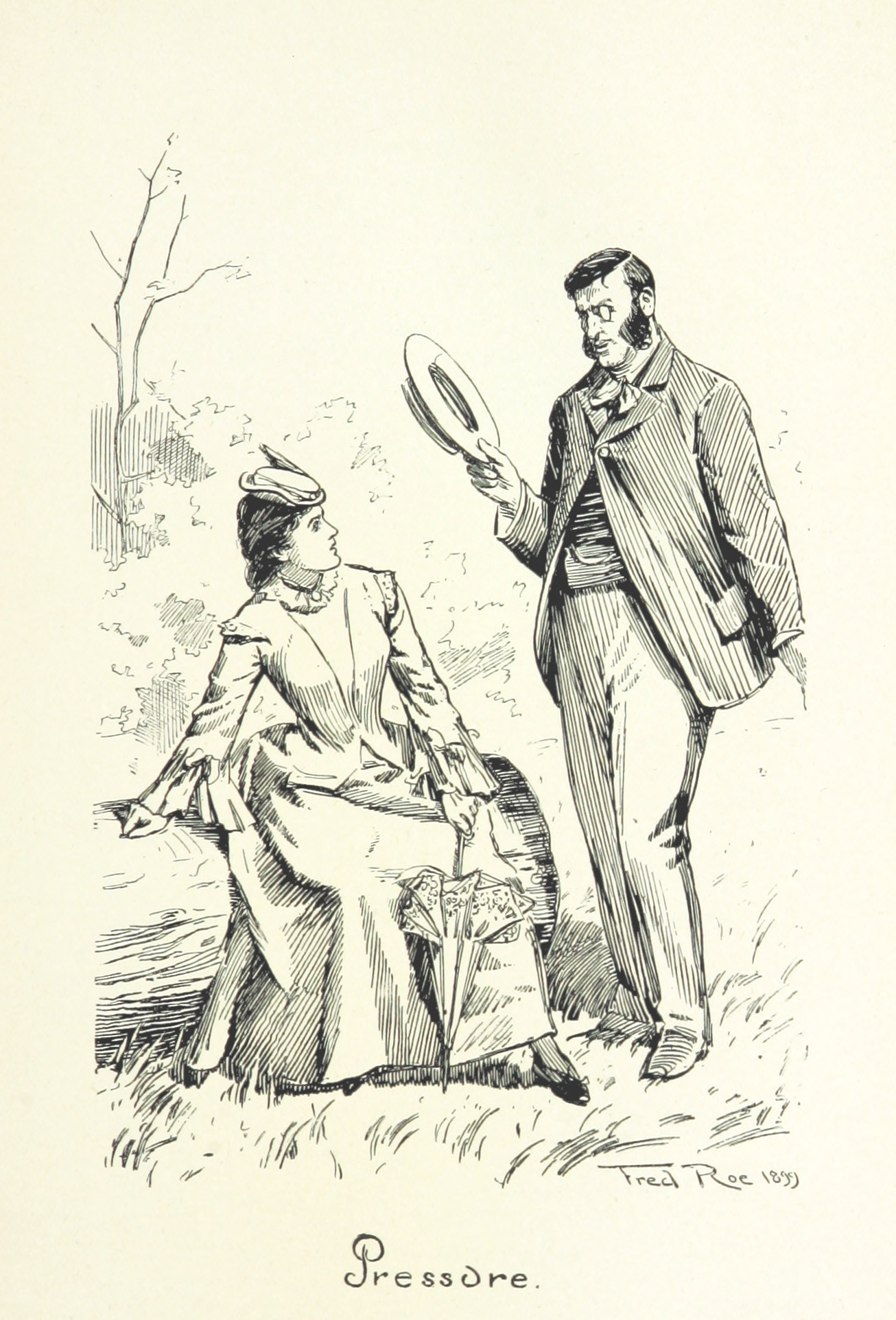 "The Works of G. J. Whyte-Melville. Edited by Sir H. Maxwell. [With illustrations by J. B. Partridge, Hugh Thomson, and others.]"